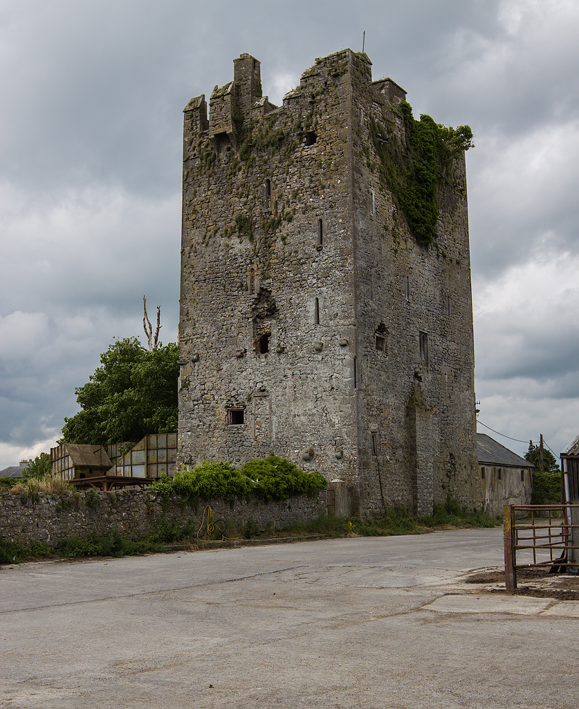 Castles of Leinster: Ballyragget, Kilkenny Built in 1495 by the Mountgarret family, Ballyragget Castle was garrisoned in 1600 by Sir George Carew against the sons of the owner Lord Mountgarret, who were in rebellion against the crown. It had at one time also been a favourite residence of the celebrated Lady Margaret Fitzgerald, Countess of Ormonde.